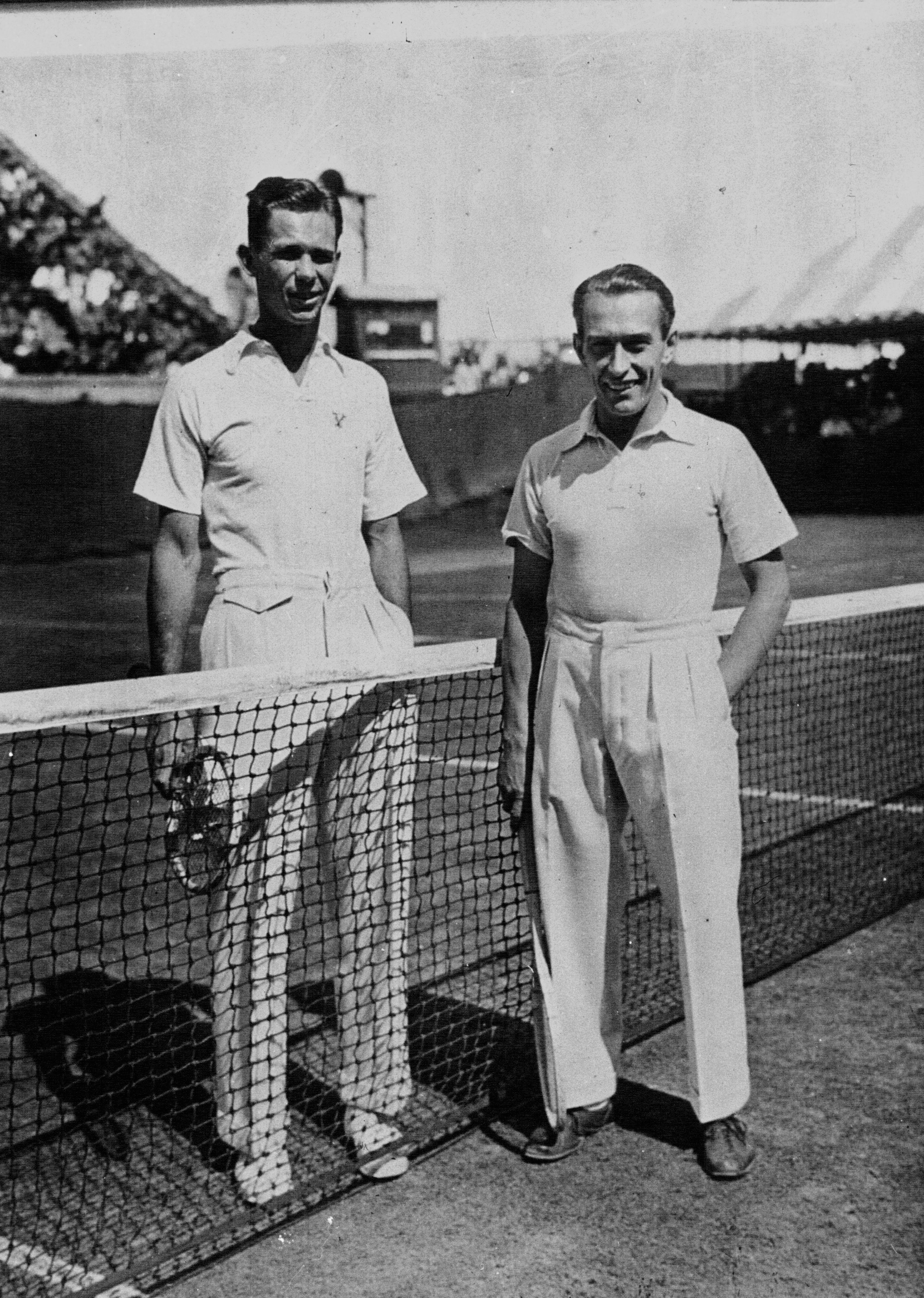 Tennis players Ellsworth Vines (left) and Henri Cochet shortly before their departure for the 1932 US Championships.